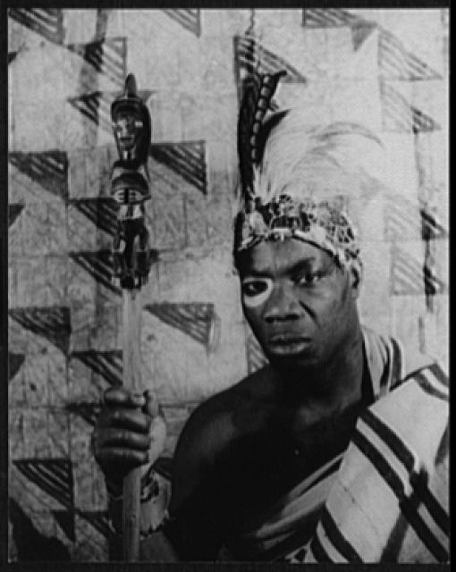 Title: Portrait of Turquese, as Chief Burah, the king in "Kykunkor" Abstract/medium: 1 photographic print : gelatin silver.